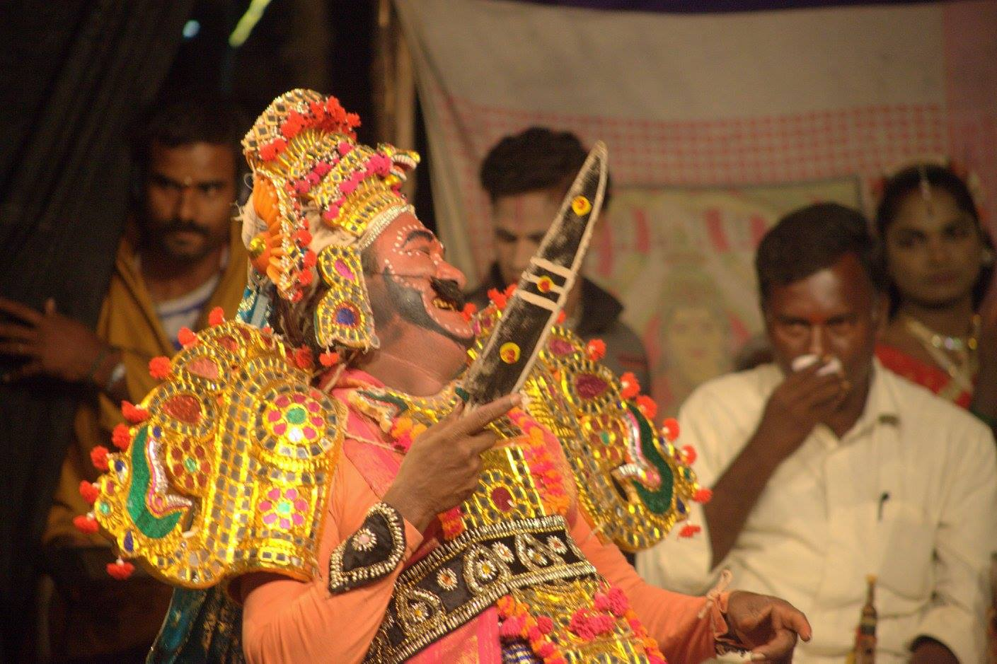 An artist depicting Kichaka